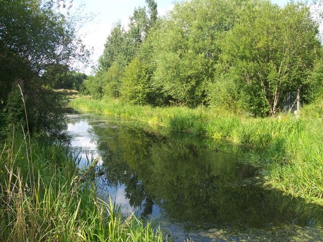 Earl Fitzwilliam's Canal. Earl Fitzwilliam's Canal, or the Fitzwilliam Canal as it is sometimes called is a half mile long spur off the Rotherham Cut. Navigable access to the Rotherham Cut is now blocked by an embankment supporting the A633, although a pipe still connects the two waterways.